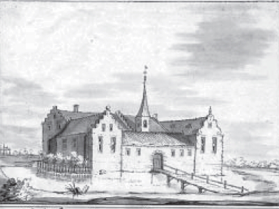 Marhulsen Havezathe